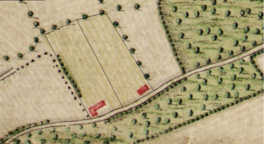 De first two houses on Het Zwartland